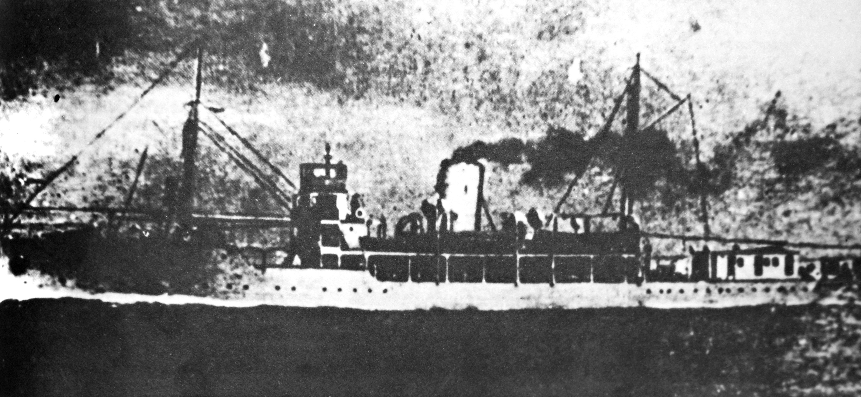 The Egyptian Navy flag ship, the Emir Farouk, in the 1948 Arab–Israeli War.